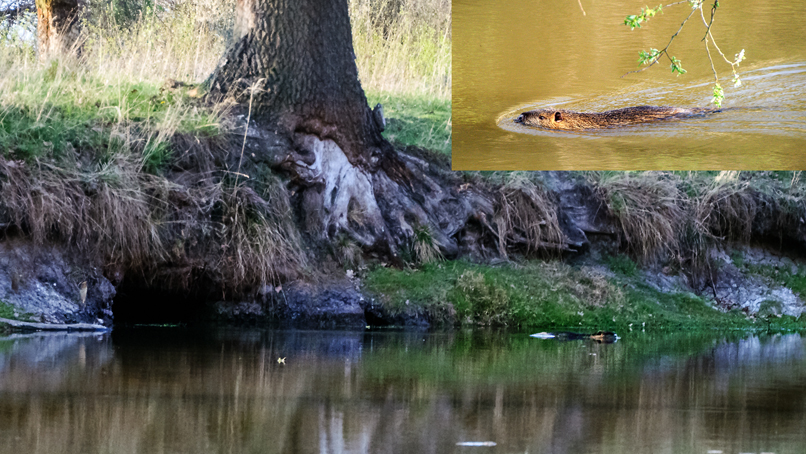 Myocastor coypus in the Herrenseegraben near Parey Elbtalaue cdda Id 329,063